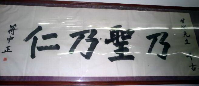 Generalissimo Chiang Kai-Shek's calligraphy in memory of Mahatma Gandhi in 1946 after his death. Now the calligraphy is exhibited in India.